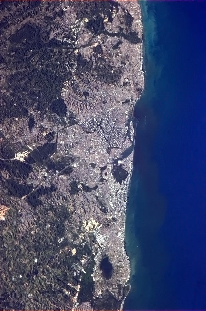 Recife pictured from the ISS